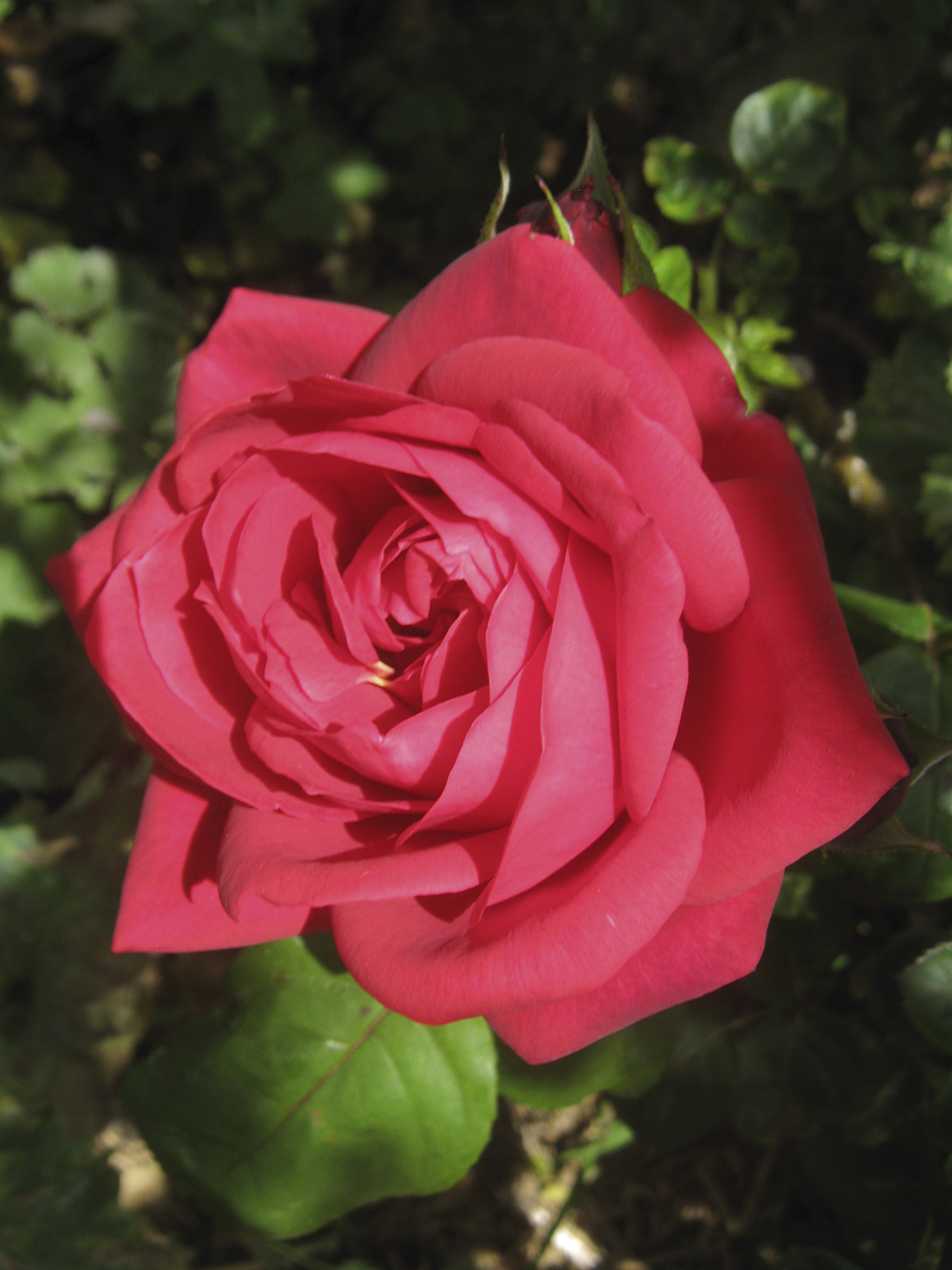 Rose 'Mrs. Harold Brookes', Hybrid Tea by Alister Clark 1931; Photographed in the Alister Clark Memorial Garden, Bulla, Victoria